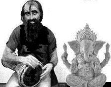 Drum for kashmir bhajans